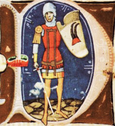 Miniature of Hahold I Hahót